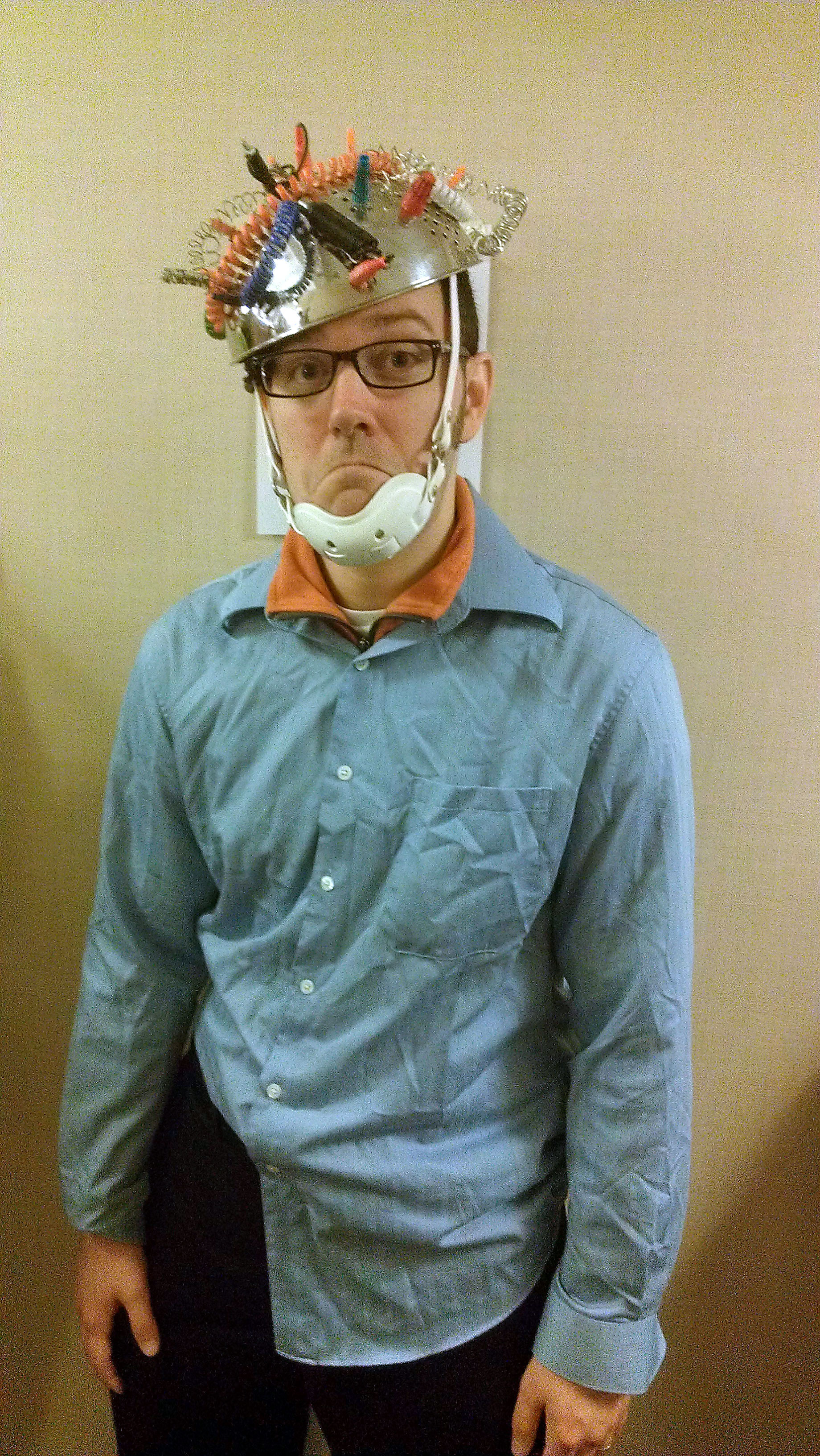 With Greg at the Chiller Theatre Expo at the Sheraton Parsippany Hotel in Parsippany, NJ. Saturday, October 25, 2014. pictured: "Angry Video Game Nerd" James Rolfe in costume as Louis Tully from Ghostbusters.